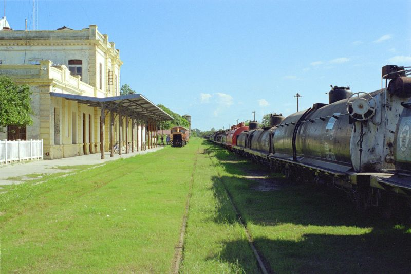 An abandoned train station in Formosa, Argentina, capital of the province of the same name.Antigua estación de tren de Formosa (argentina)